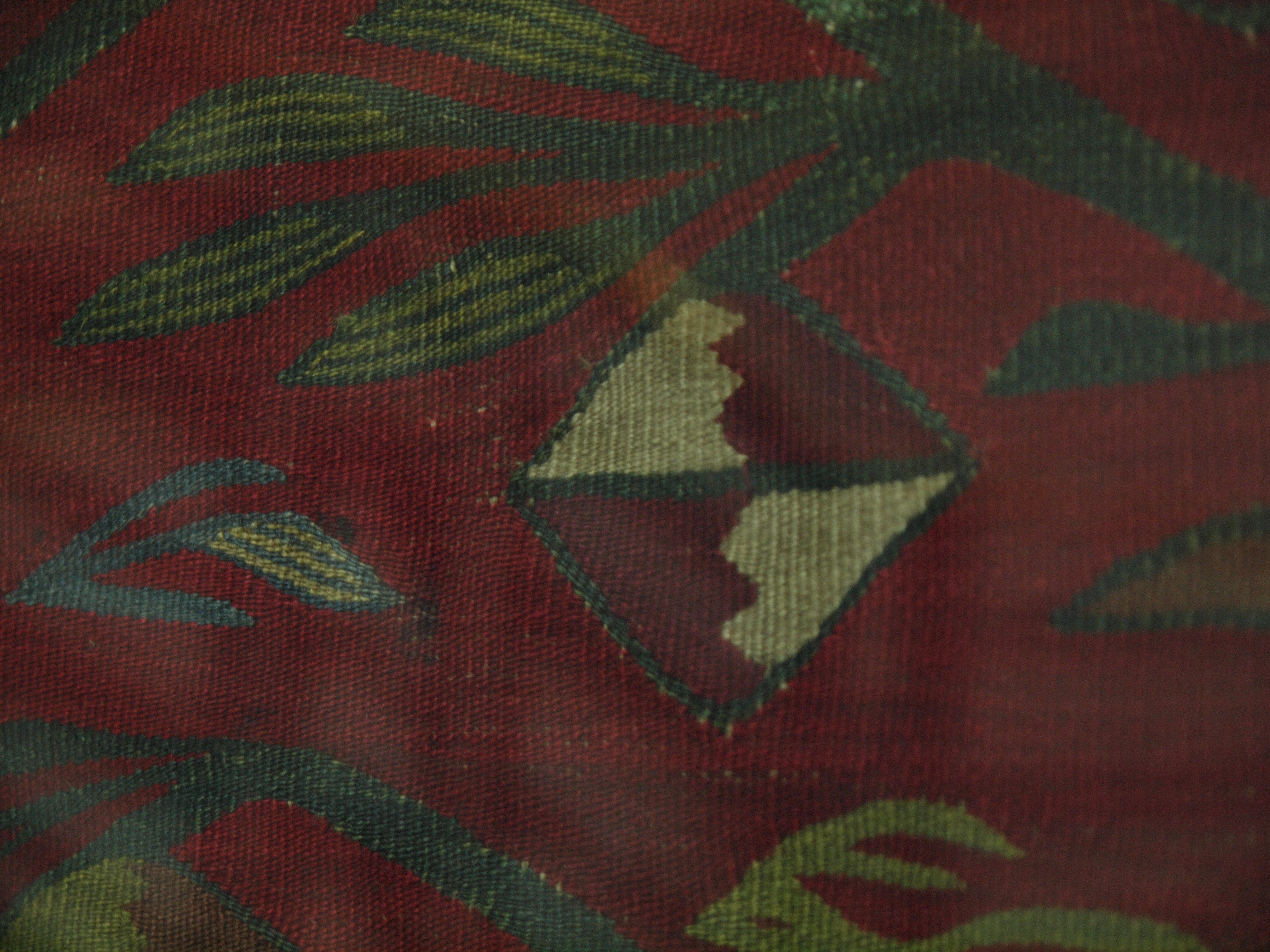 Pirot kilim ornament njemacka kutija Belgrade ethnographical museum